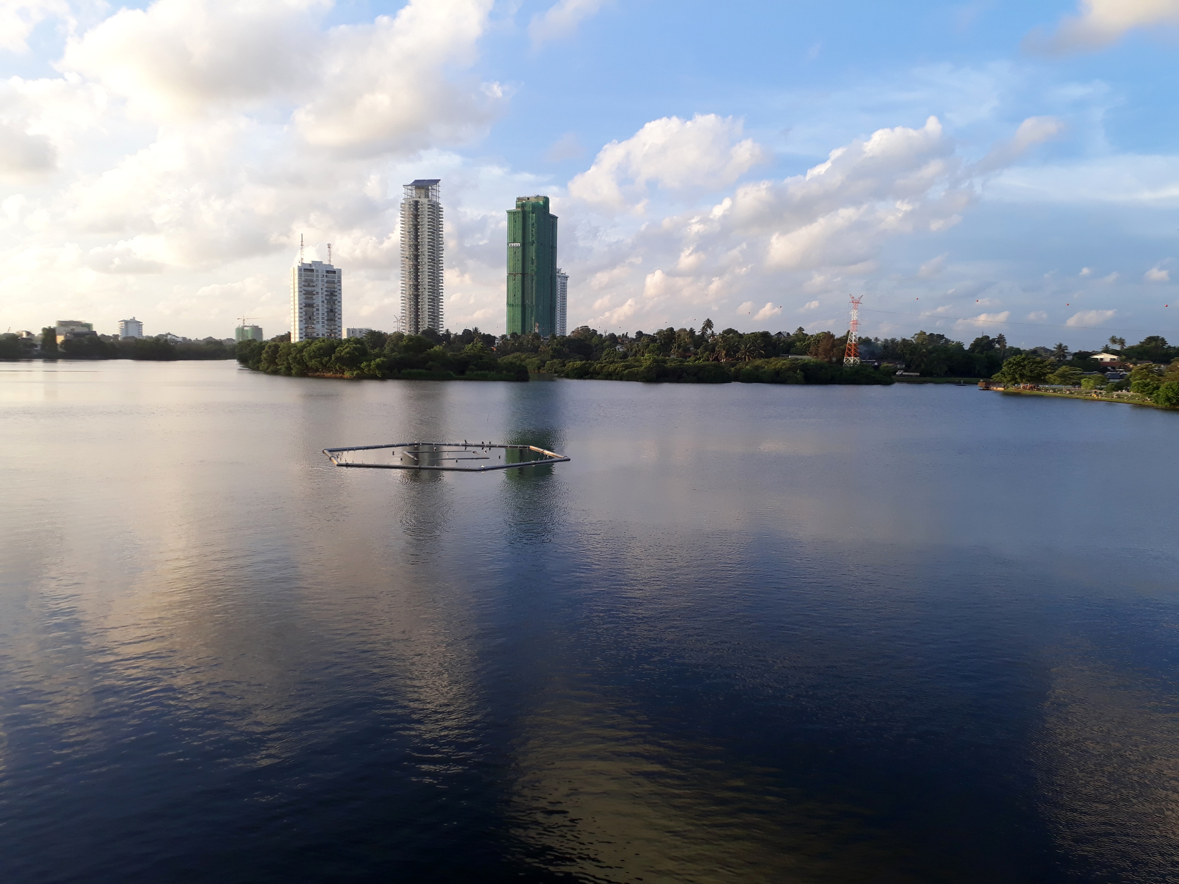 Diyawanna Lake, with four high-rise apartment buildings in the background. Left to right: Fairway Residencies, Clearpoint Residencies, The Elements (under construction), and Fairway Skygardens (partially obscured). The Diyatha Uyana park can be seen on the extreme right.